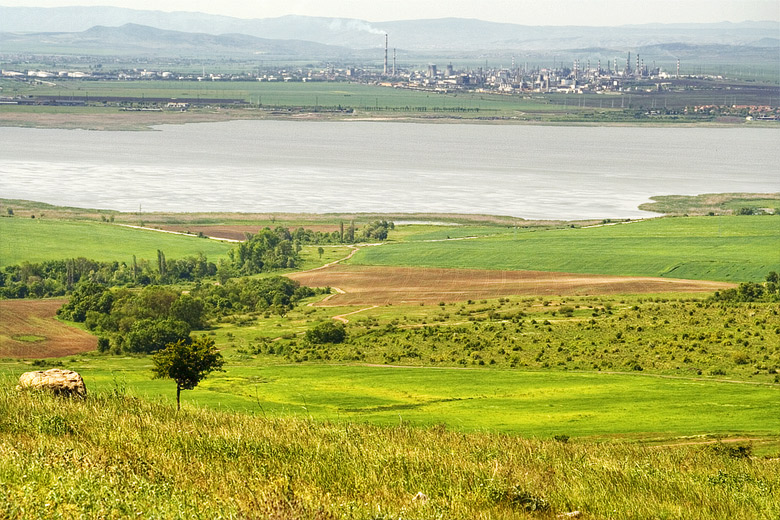 Lukoil Neftochim Burgas seen from the other shore of Lake Burgas.